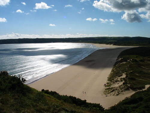 Oxwich Bay on the Gower Peninsula of South Wales. Taken by Jamie O'Shaughnessy September 5, 2003 and released to the public domain.